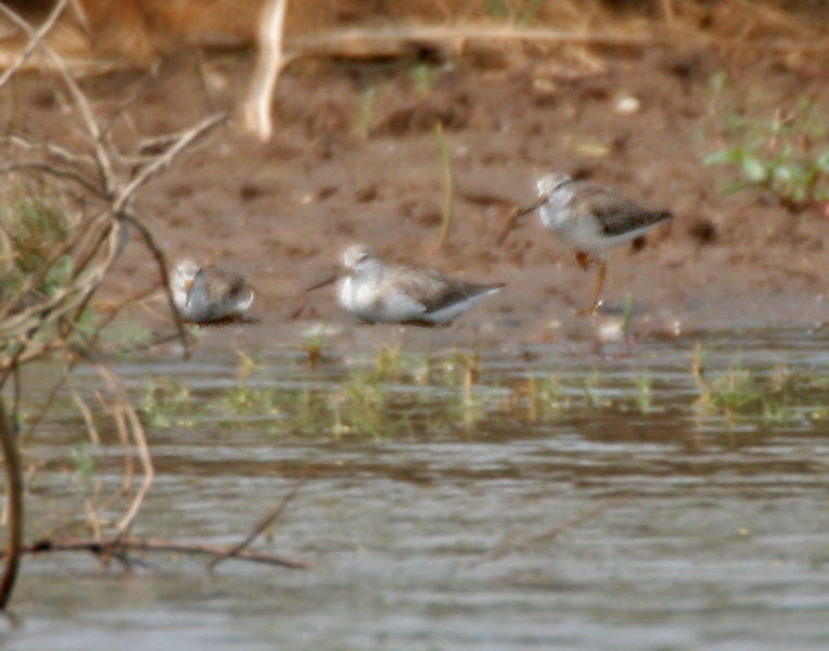 Terek Sandpiper Xenus cinereus in Krishna Wildlife Sanctuary, Andhra Pradesh, India.